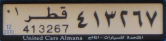 License plates of Qatar Taxi